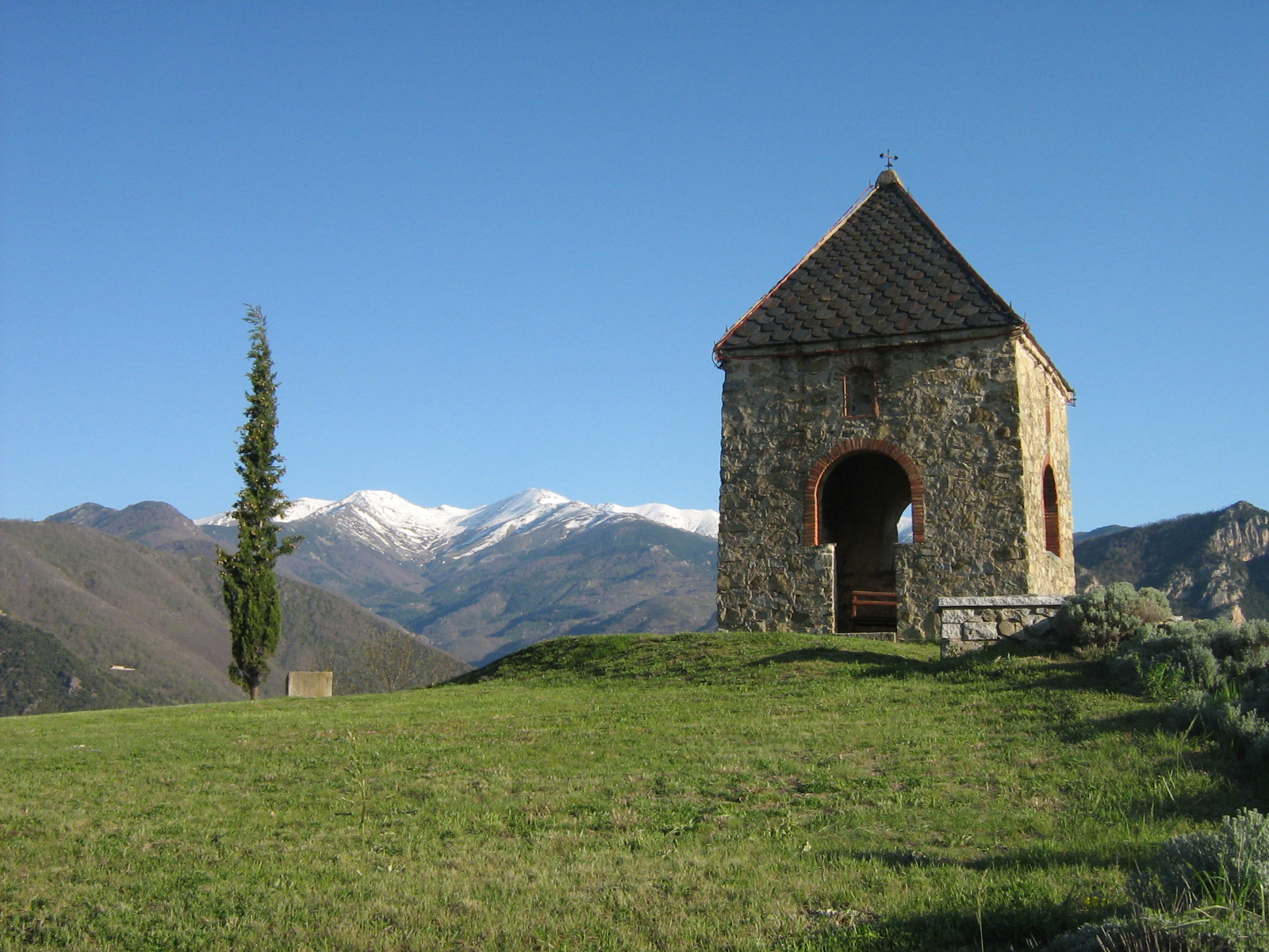 Probably the last remaining "conjurador" in France. In olden times the priest would assemble the villagers when bad weather threatened to pray for relief to the saint (there were four small statues in niches on the outside of the four walls) whose image faced the approaching storm.